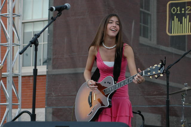 Kate Voegele at Southport Chicago Illinois USA on July 23rd, 2005 (high resolution)